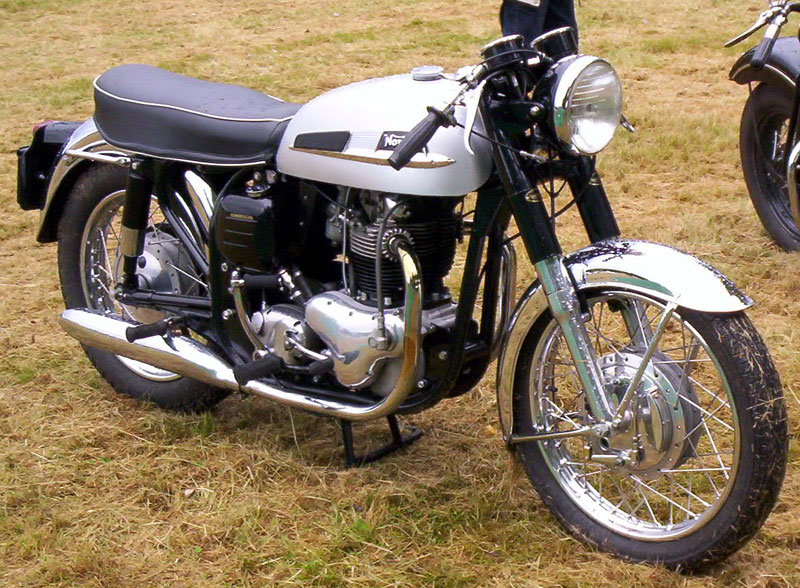 Norton